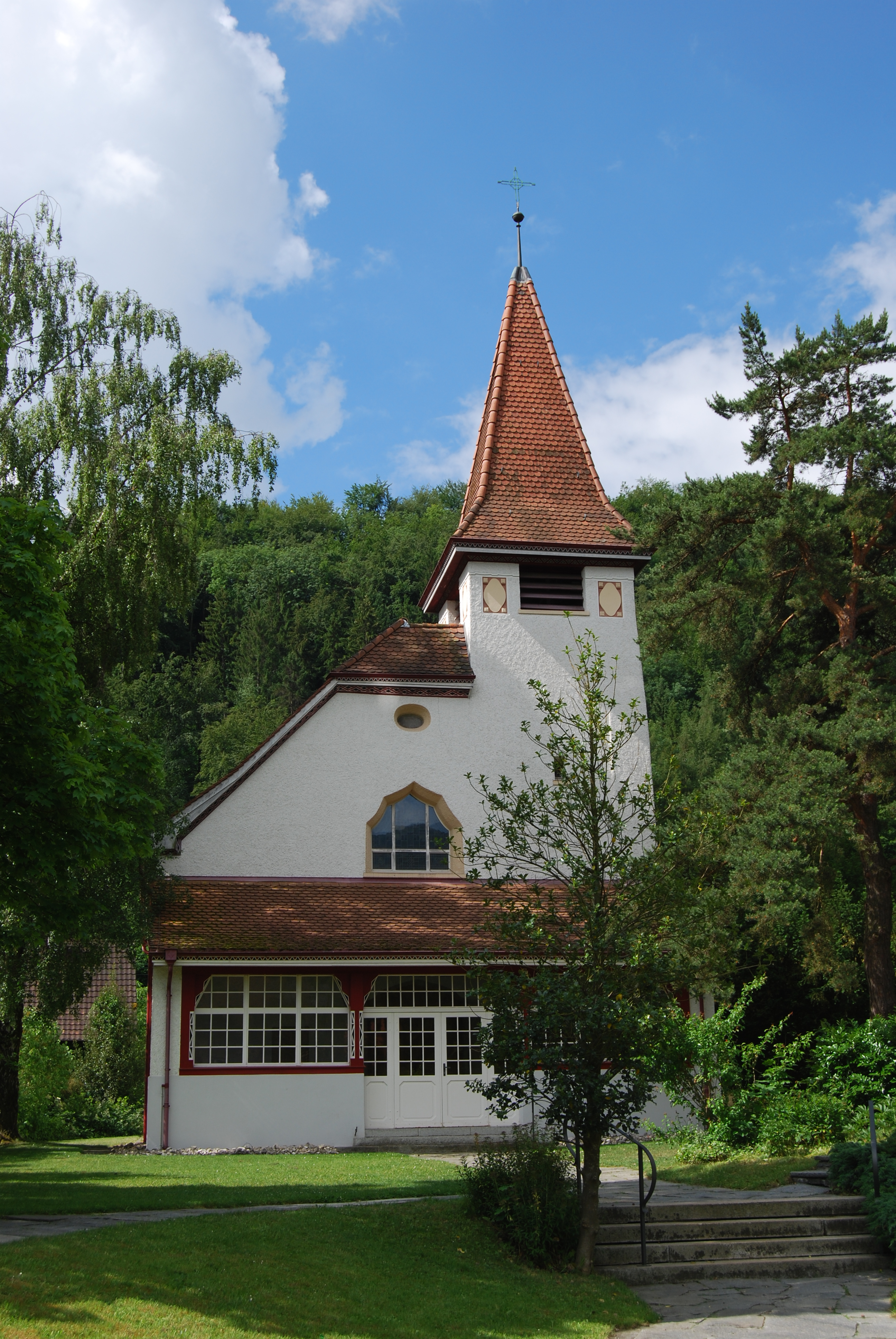 Christian Catholic Cross of Trimbach, canton of Solothurn, Switzerland